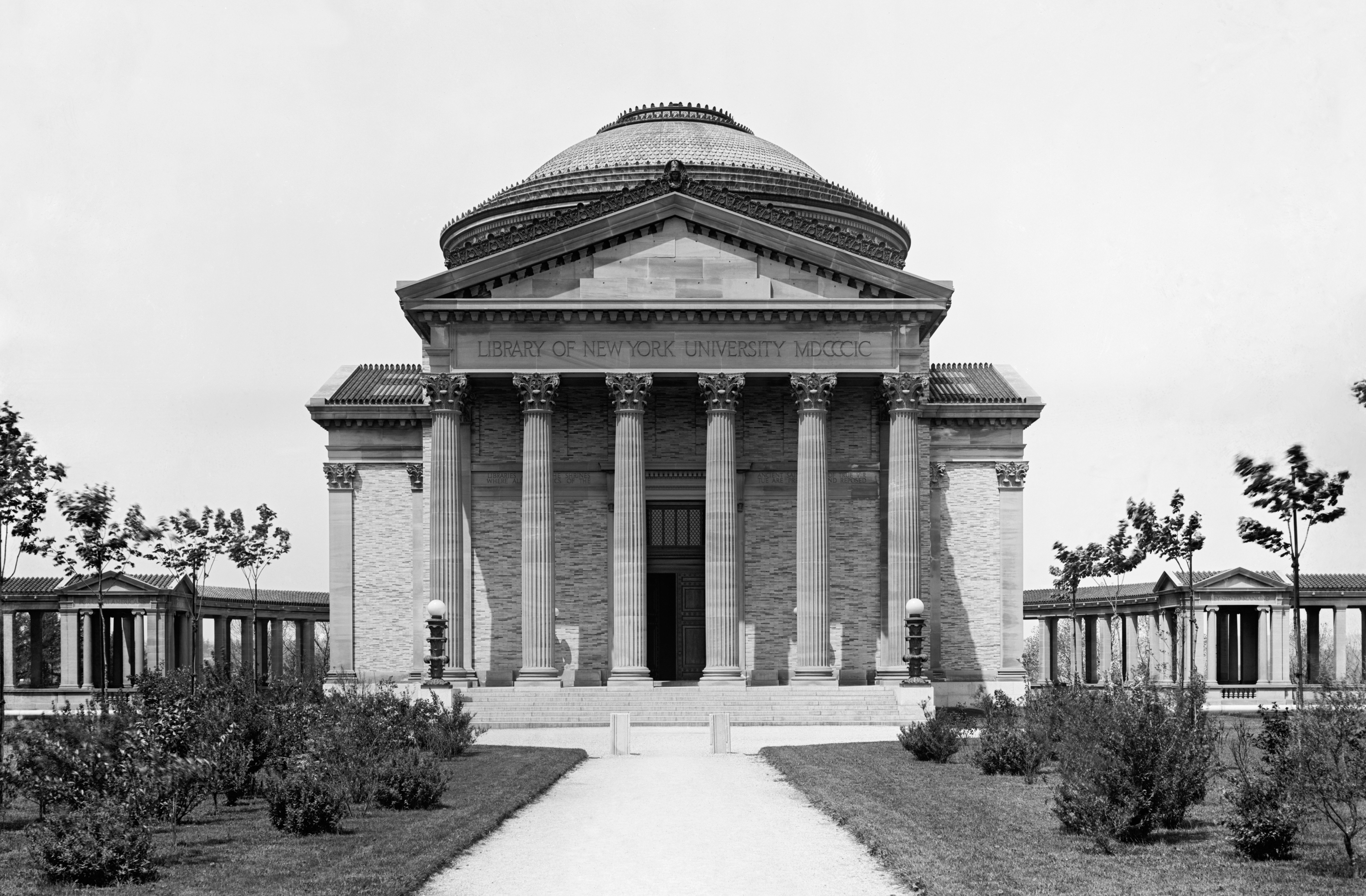 Period photograph of New York University library (Bronx campus), later converted to Bronx Community College.